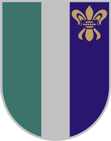 Coat of arms of the former Daugavpils district (rajons).